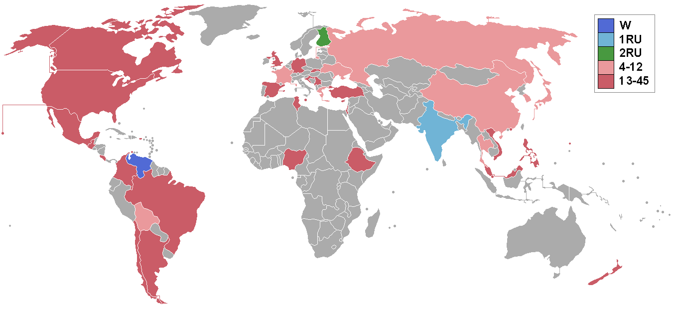 Miss International 2003 Map